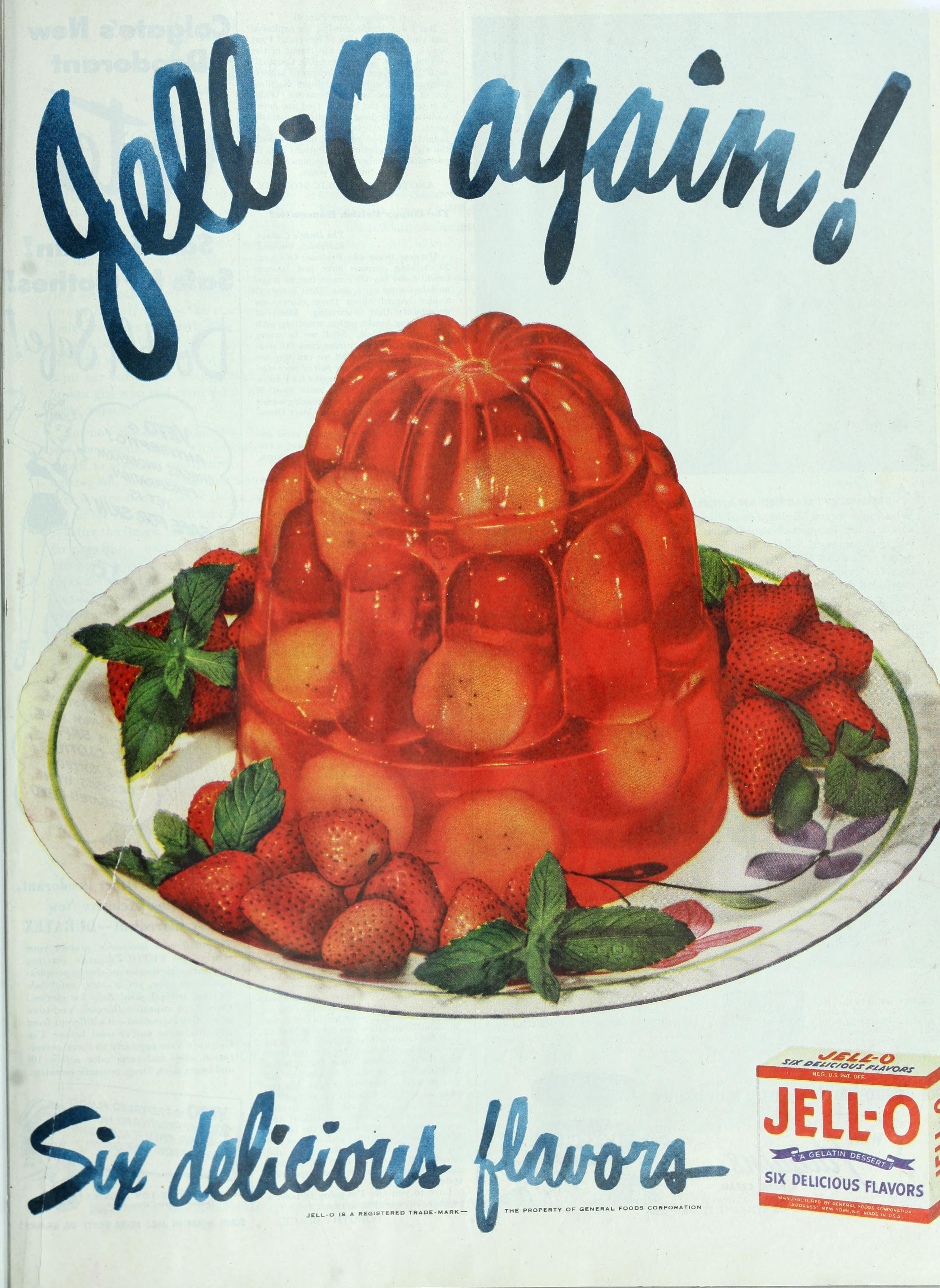 Jell-O Again! Title: The Ladies' home journal Year: 1889 (1880s) Authors: Wyeth, N. C. (Newell Convers), 1882-1945 Subjects: Women's periodicals Janice Bluestein Longone Culinary Archive Publisher: Philadelphia : (s.n.) Text Appearing Before Image: iw Text Appearing After Image: \ 1